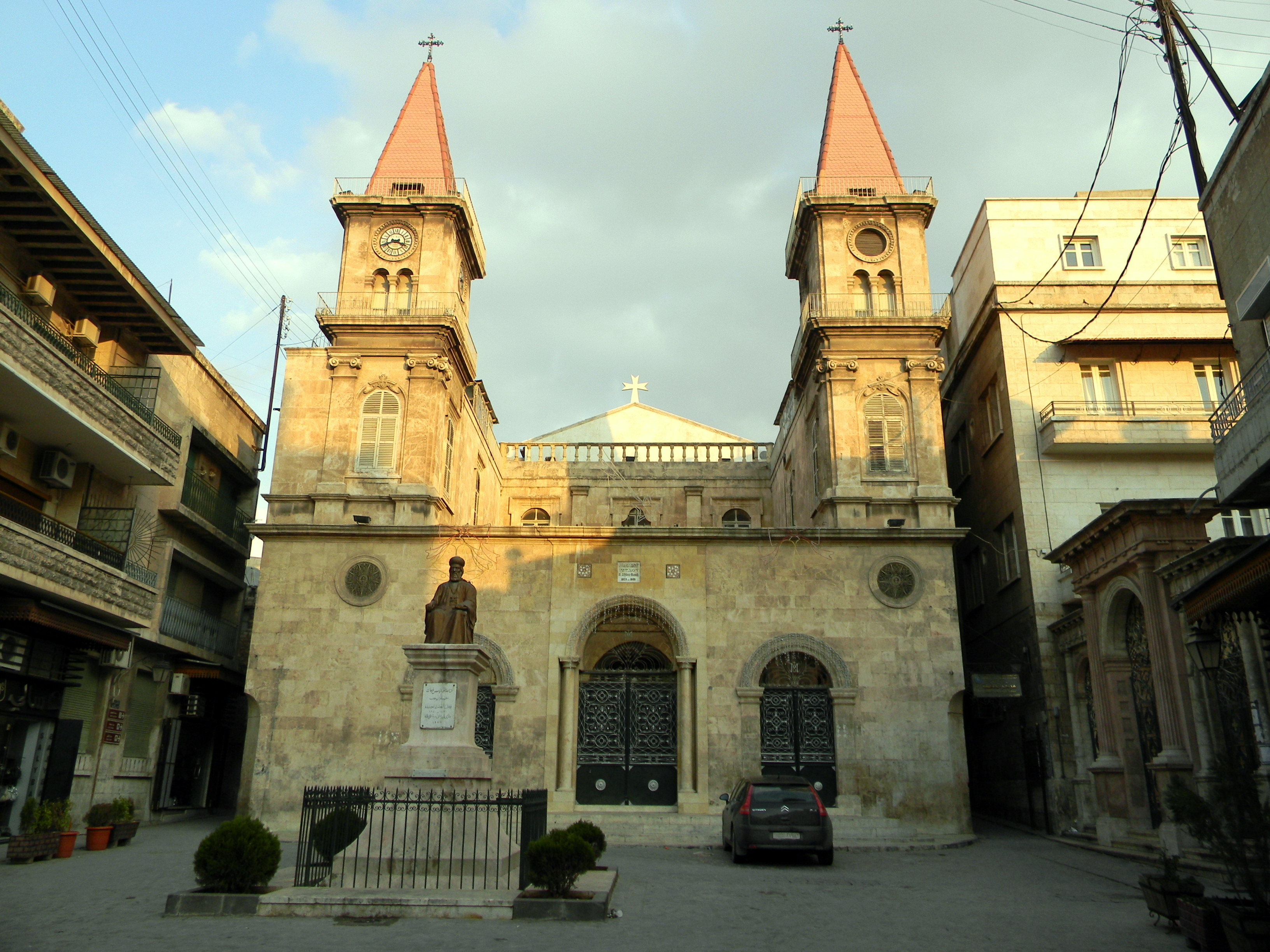 Saint Elias Maronite Cathedral